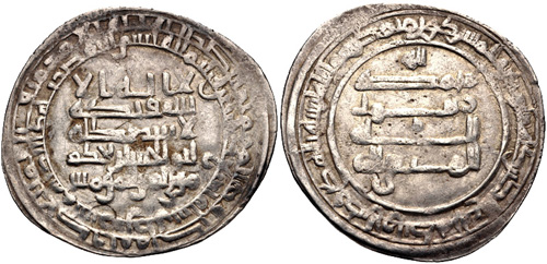 ISLAMIC, 'Abbasid Caliphate. Al-Muttaqi. AH 329-333 / AD 940-944. AR Dirhem (26mm, 3.18 g, 11h). Surra man Ra’a mint. Dated AH 329 (AD 940/1). Citing the chief amir Bajkam. Album 258. VF, lightly toned, areas of flatness. Rare.